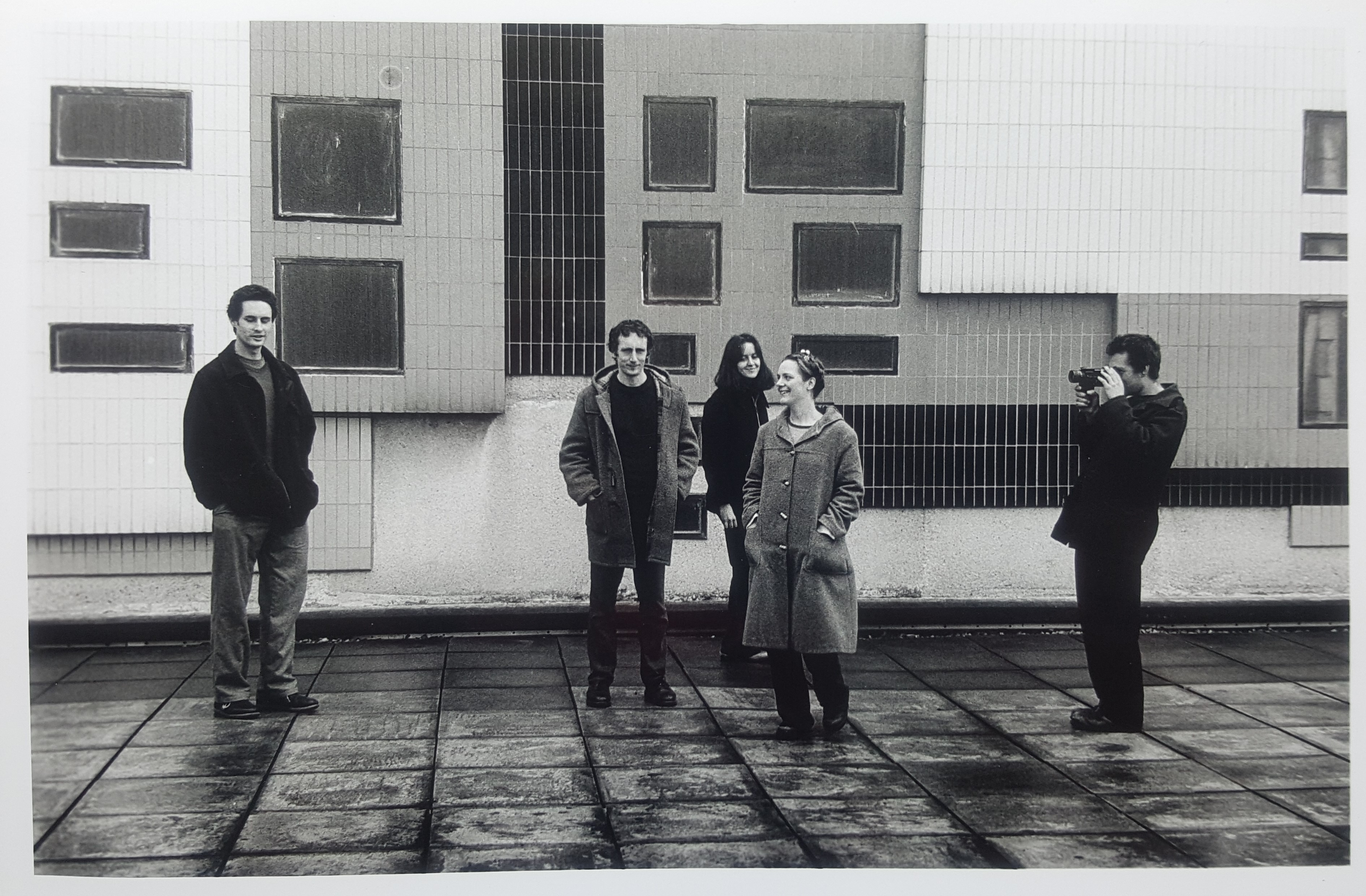 Movietone circa 2000, L-R Chris Cole, Sam Jones, Rachel Brook, kate Wright, Matt Jones